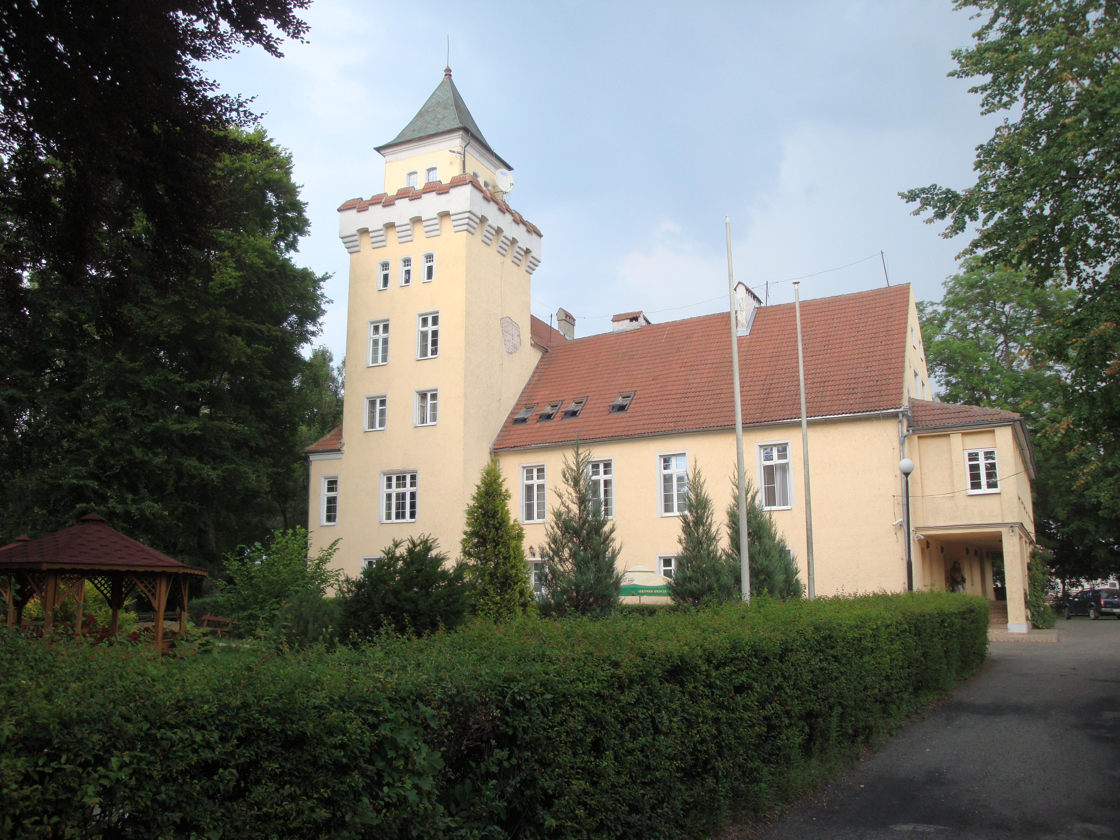 Nowęcin-village in Gmina Wicko, near Łeba, Poland